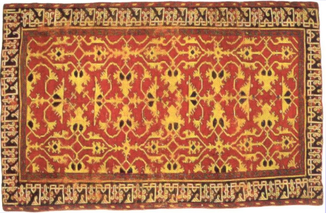 Western Anatolia knotted wool 'Lotto carpet', 16th century, Saint Louis Art Museum